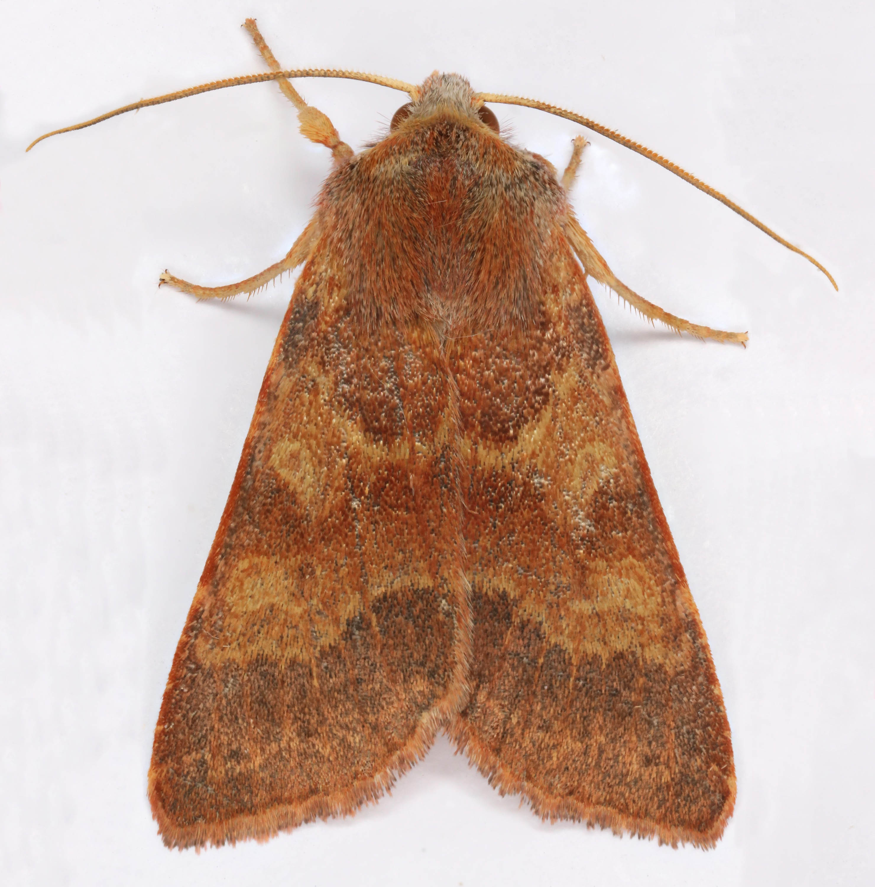 Agrochola helvola, Flounced Chestnut, Trawscoed, North Wales, Oct 2015